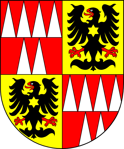 Coat of arms (shield only) of Antonín Paduánský Cyril Stojan, archbishop of Olomouc, Czech republic (1921 - 1923). Identical with the arms of the archdiocese; he did not use his own personal arms.